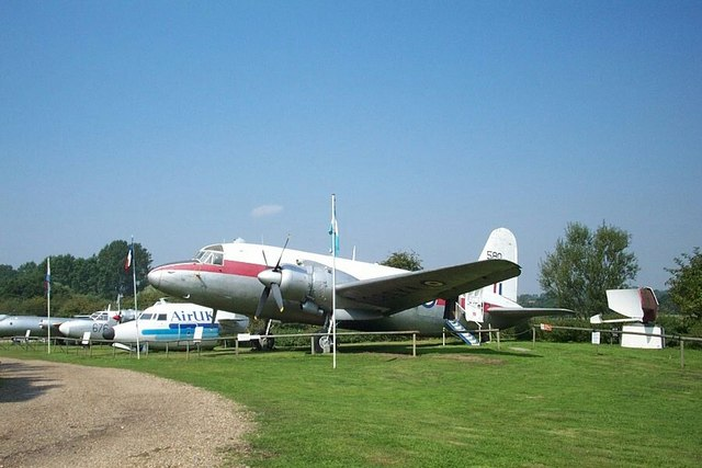 Flixton Air Museum VX580 Vickers Valetta C.2